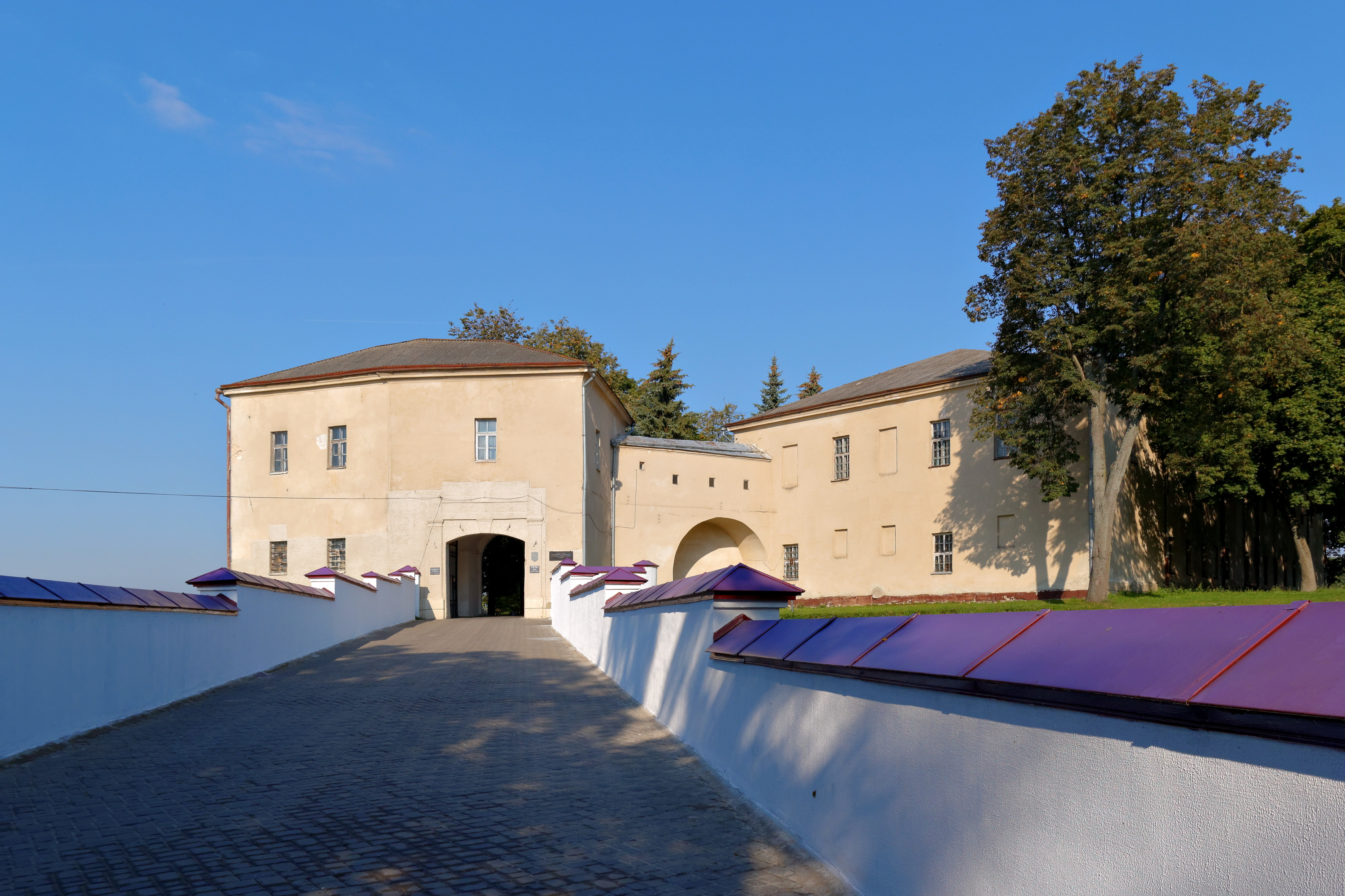 Grodno. Old Castle